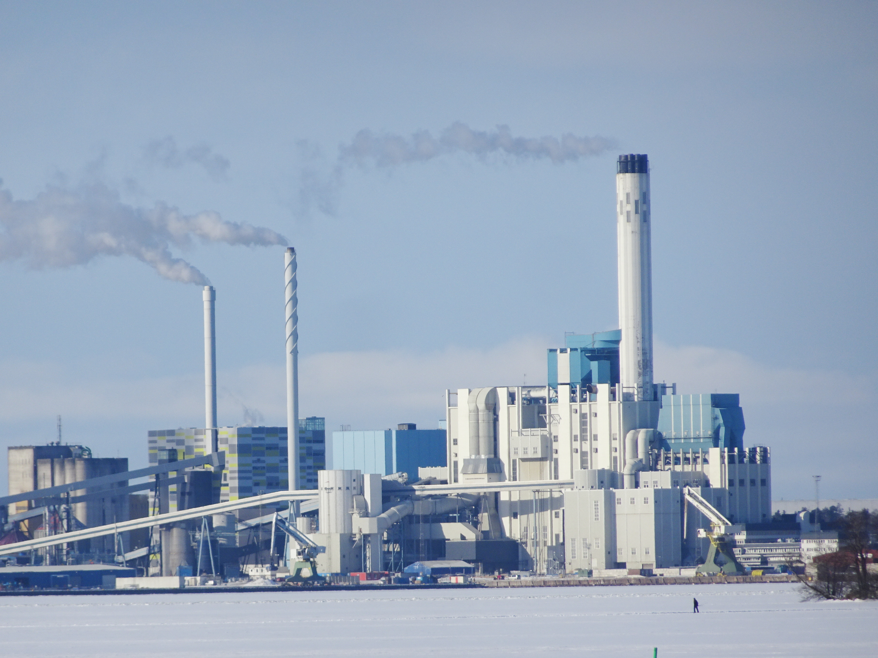 Västerås cogeneration plant. From left: unit 6 (incineration plant), 5 biofuel and unit 4 (only used in wintertime). The older units 3 - 1 are closed. Västerås Sweden